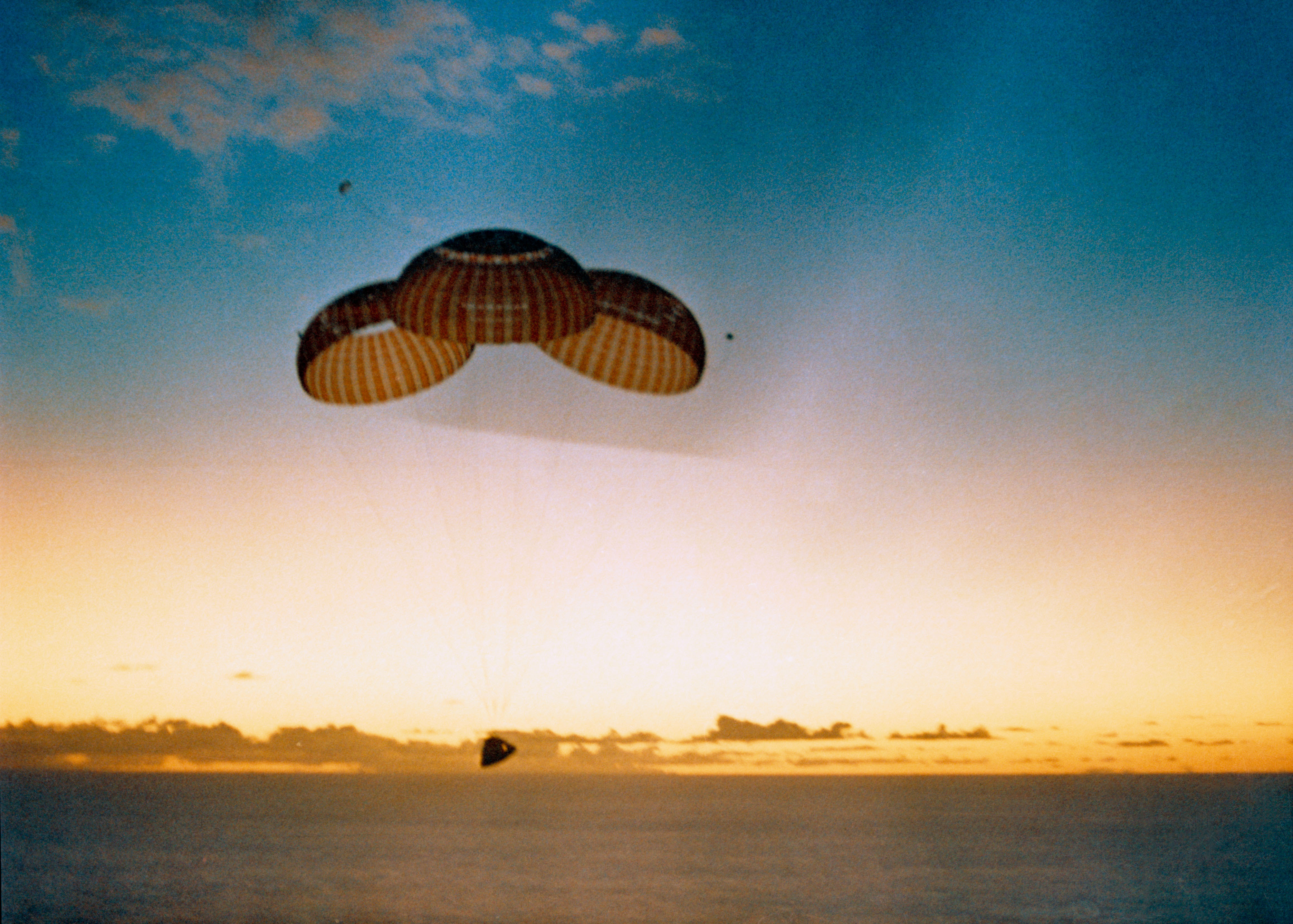 Apollo 10 landing.